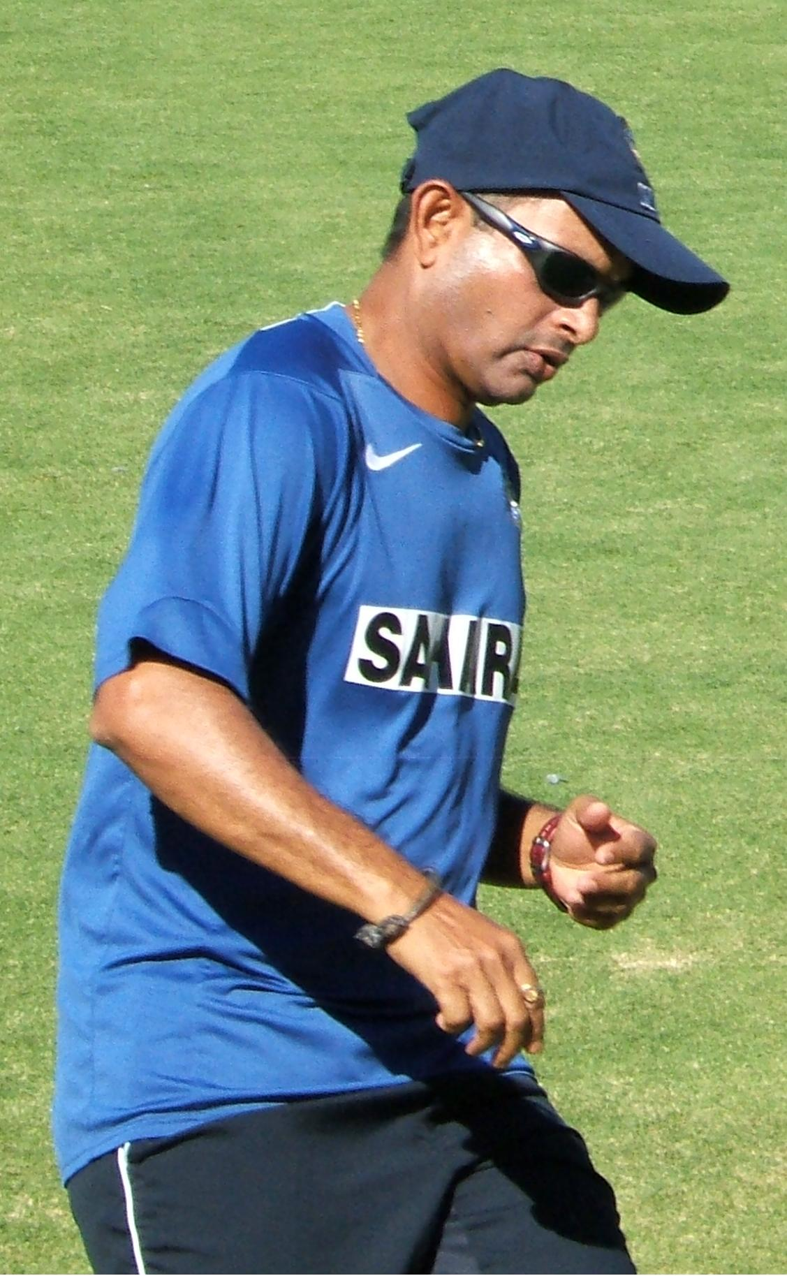 Indian cricket manager at Adelaide Oval